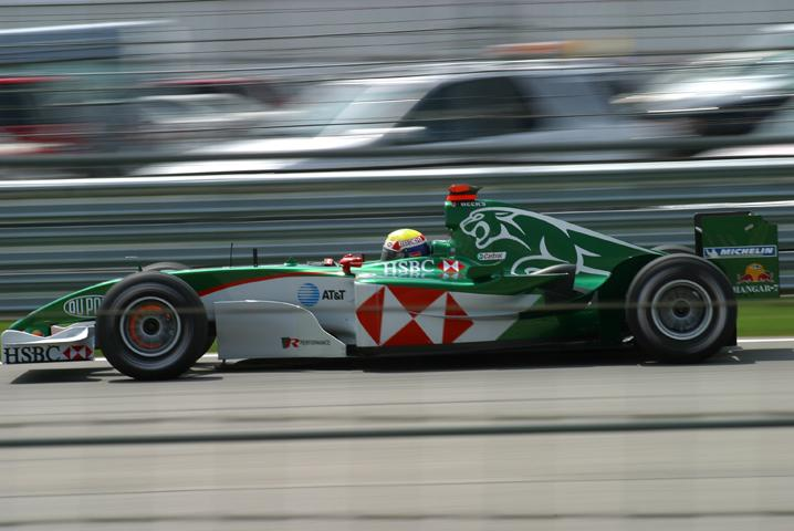 Mark Webber driving for Jaguar Racing at the 2004 United States Grand Prix.